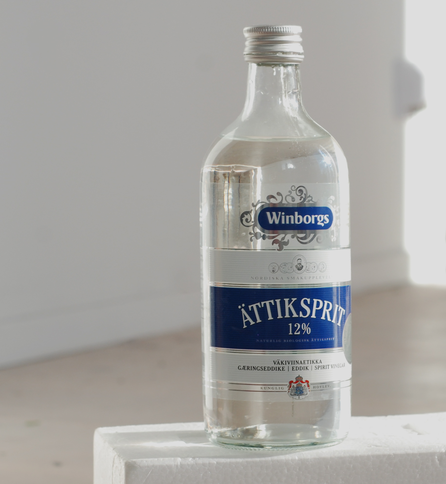 Spirit Vinegar